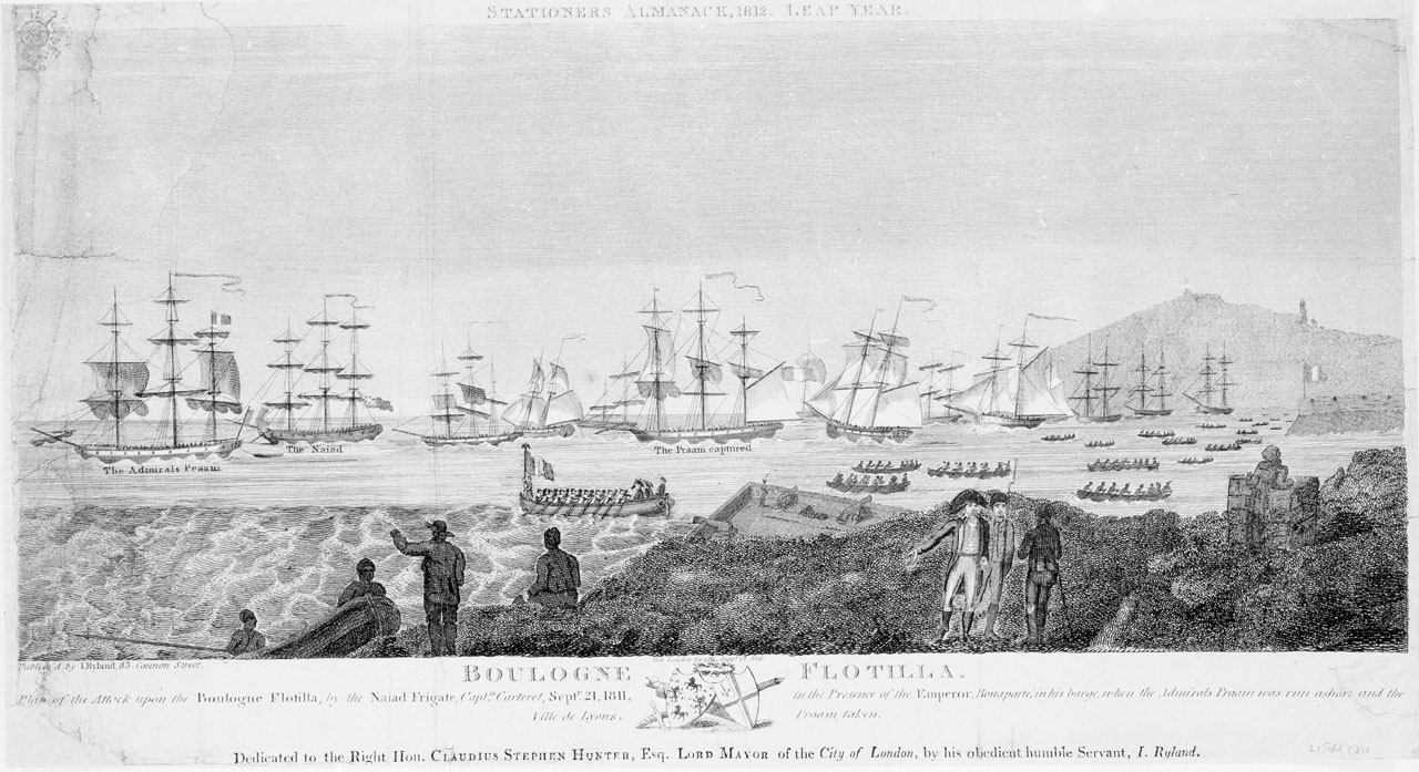 Stationers Almanack, 1812. Leap Year. Plan of the Attack upon the Boulogne Flotilla, by the Naiad Frigate, Captn Carteret, Septr 21, 1811, in the presence of the Emperor, Bonaparte, in his barge, when the Admirals Praam was run ashore and the Ville de Lyons, Praam, taken IDː PAF4788 Materialsː etching. Technique includes engraving. Measurementsː Sheet: 240 x 443 mm; Mount: 405 mm x 556 mm